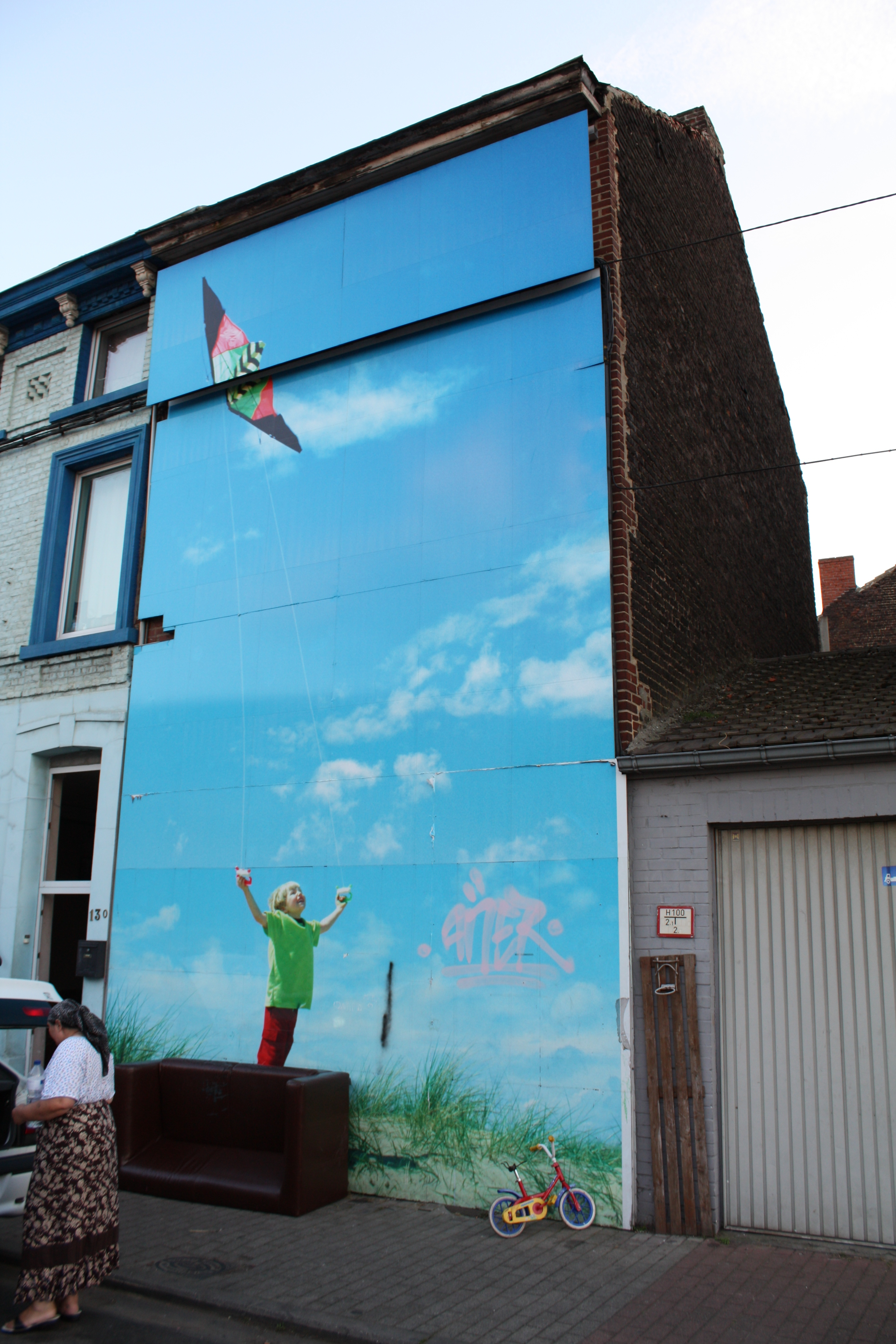 House formerly owned by Marc Dutroux in the Avenue Philippeville 128, Marcinelle, Belgium.